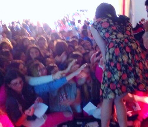 world tour